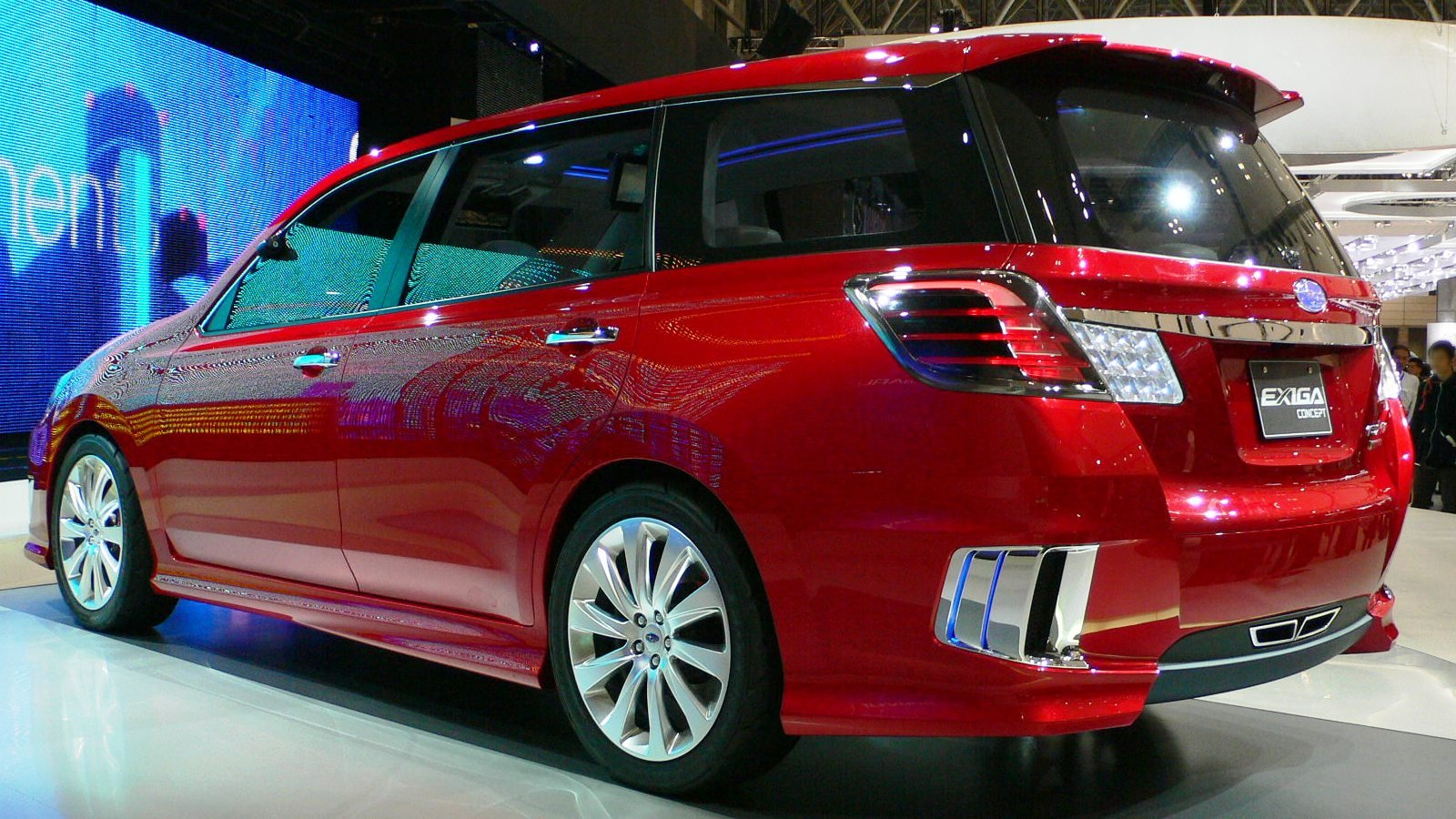 'Subaru Exiga Concept photographed in Tokyo Motor Show 2007